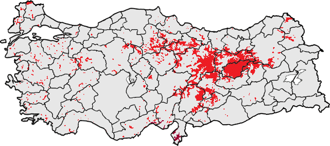 A map depicting the Alevi population of Turkey. The red areas are inhabited by the so-called Anatolian Alevi-Bektashis, while the dark red represents the Arabic speaking Alawites.